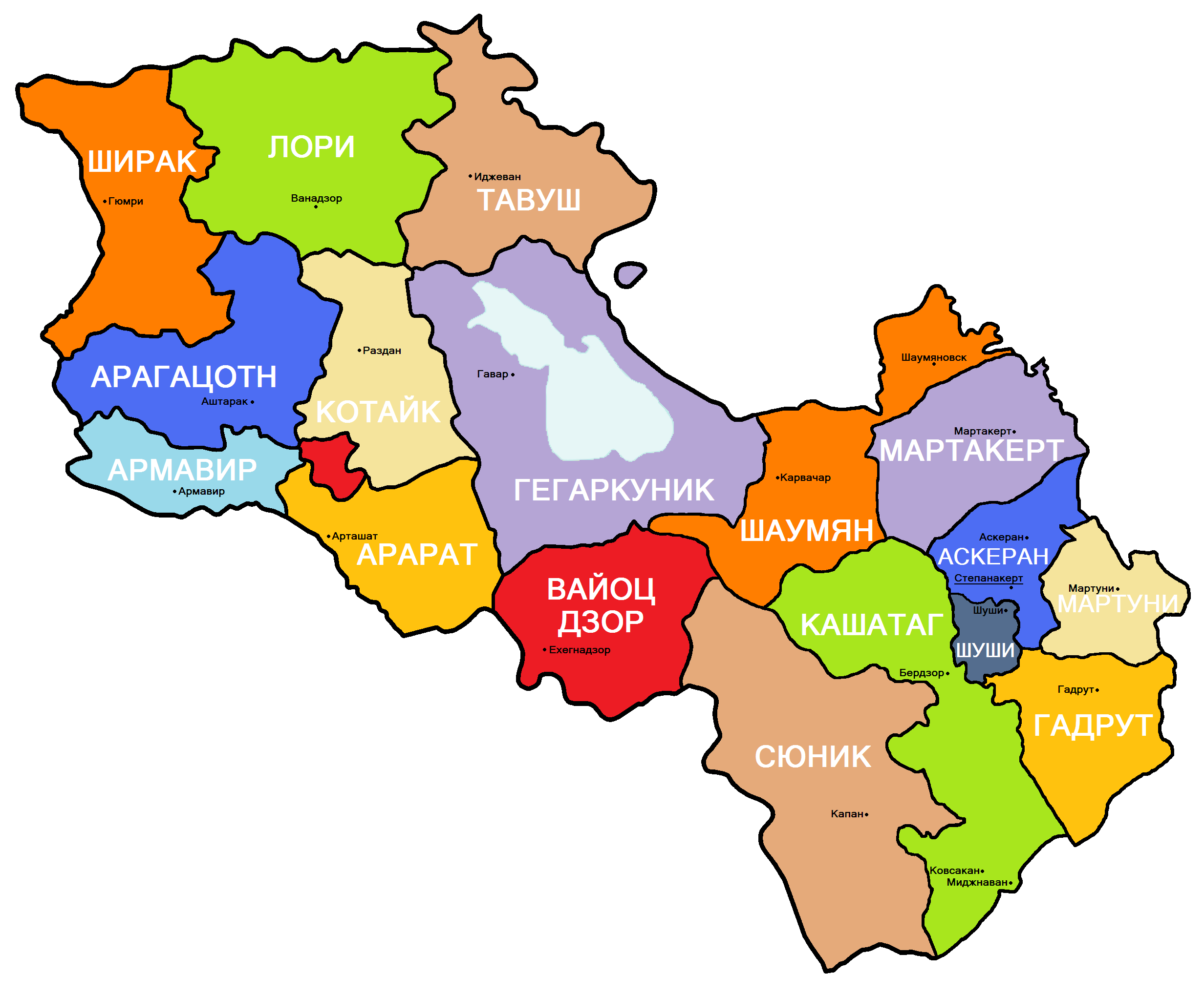 Miatsum (Armenian Միացում - «unification») - the idea, based on the desire of Armenians of Nagorno Karabakh to join the united Armenian state, including the territory of the Republic of Armenia and Nagorno-Karabakh Autonomous Oblast as well as the occupied lands of the Republic of Azerbaijan. Today Miatsum actually implemented, but has not received international recognition.